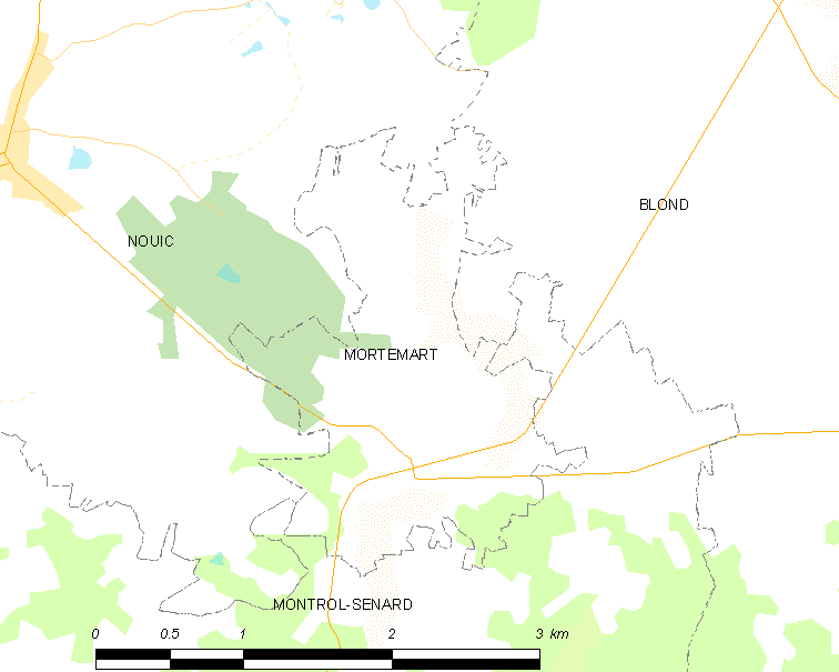 Map of French municipality Mortemart